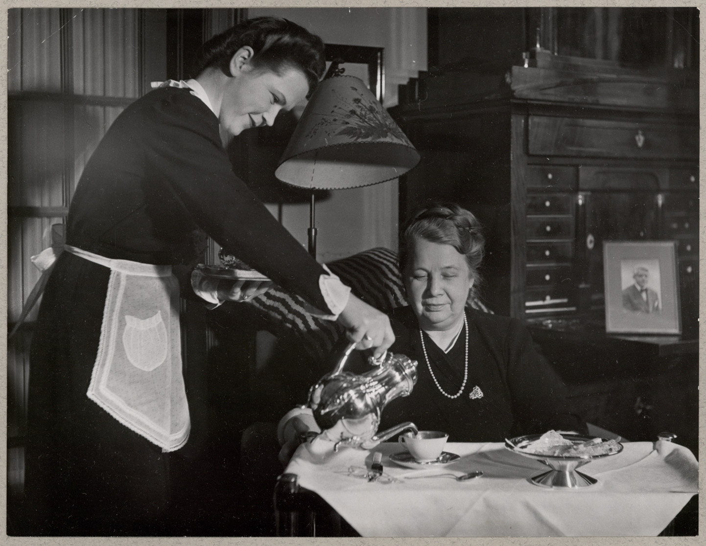 Lisbet Hindsgaul (1890-1969). Det Konservative Folkeparti / The Conservatives. Landstinget 1935-53. KB id: ke017141 Department of Maps, Prints and Photographs, The Royal Library, Denmark.